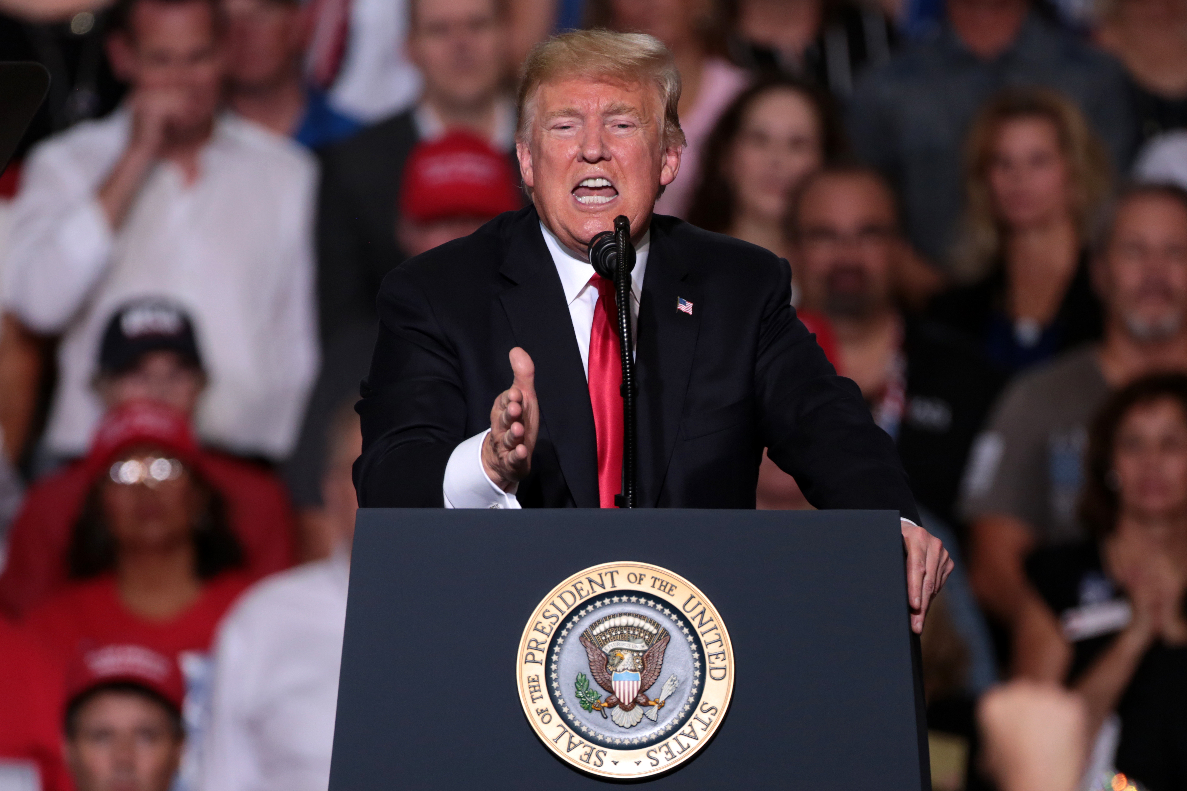 President of the United States Donald Trump speaking with supporters at a Make America Great Again campaign rally at International Air Response Hangar at Phoenix-Mesa Gateway Airport in Mesa, Arizona.